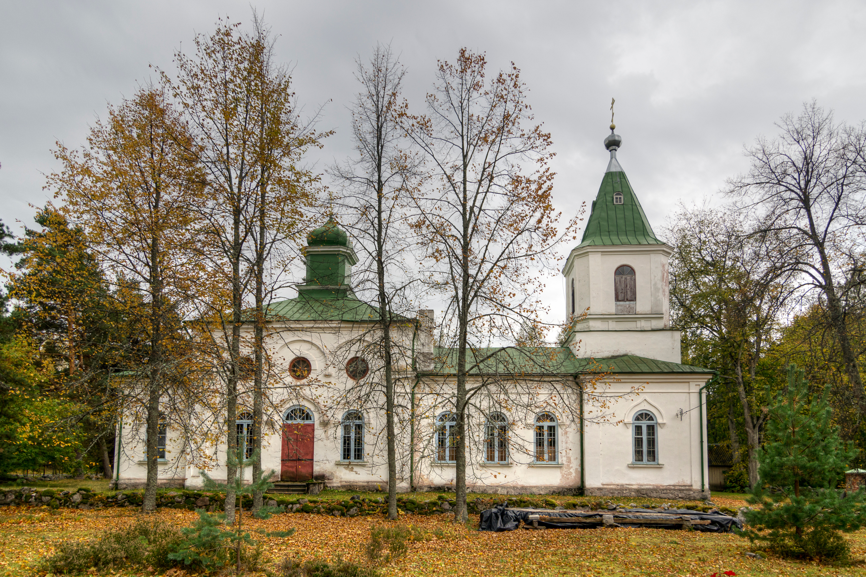 Häädemeeste orthodox church